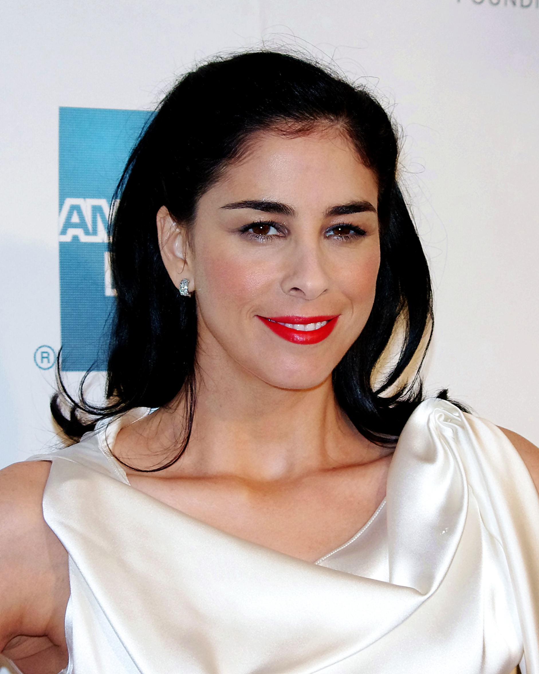 Sarah Silverman at the 2012 Tribeca Film Festival premiere of Take This Waltz.